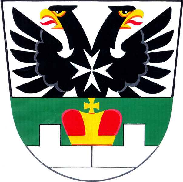 Municipal coat of arms of Orlovice village, Vyškov District, Czech Republic.